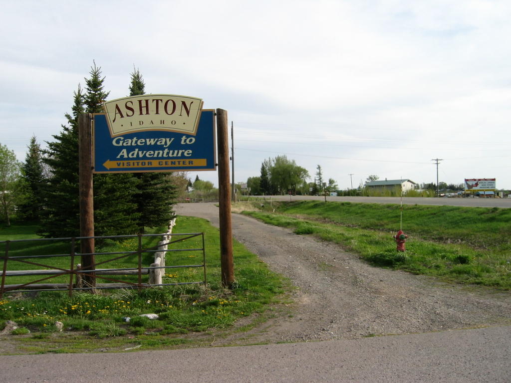 Ashton, Idaho.